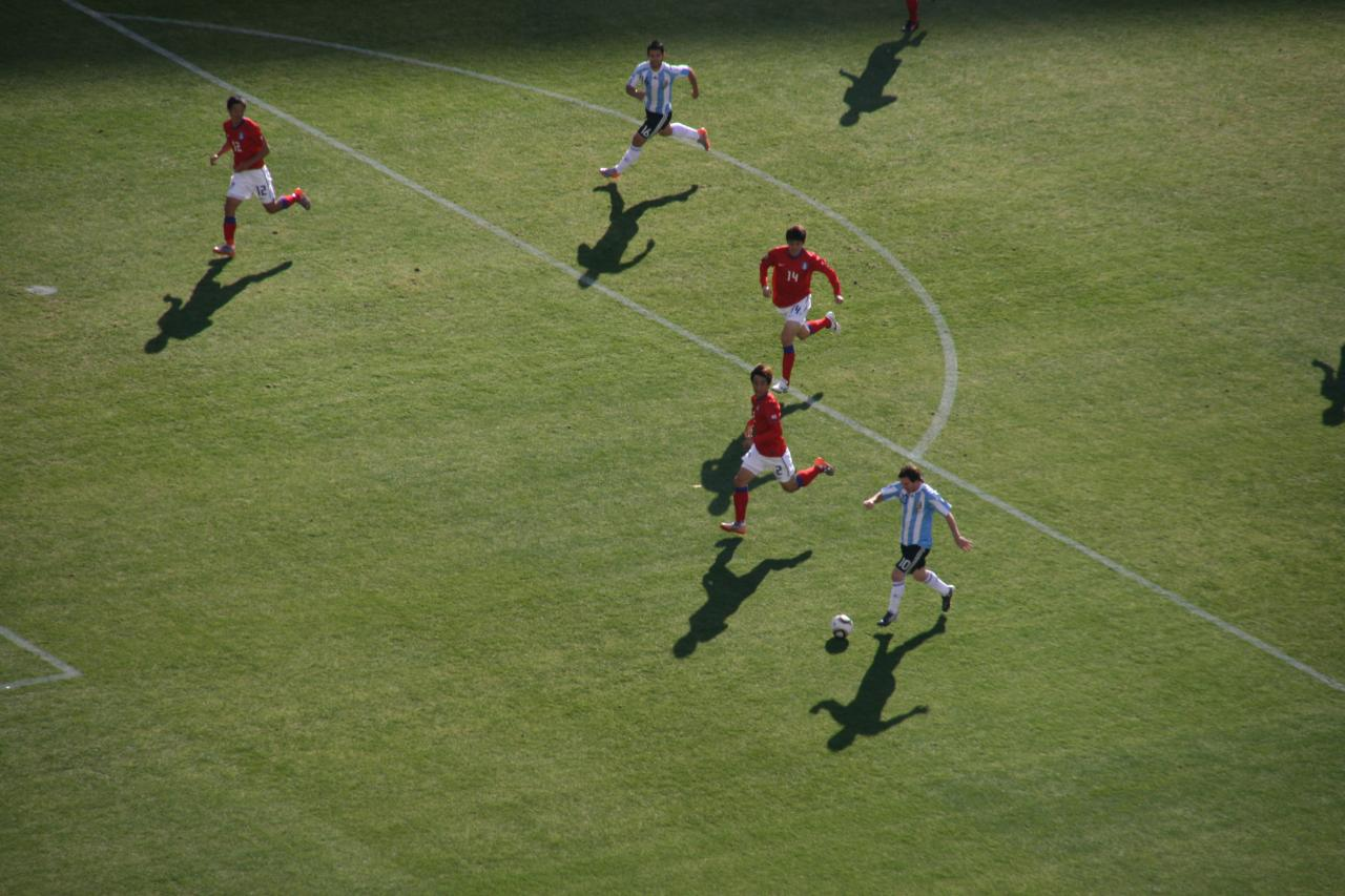 During the game between Argentina and South Korea at FIFA World Cup 2010, 17 June 2010, Soccer City, Johannesburg. Lionel Messi racing into the box, setting up a goal.